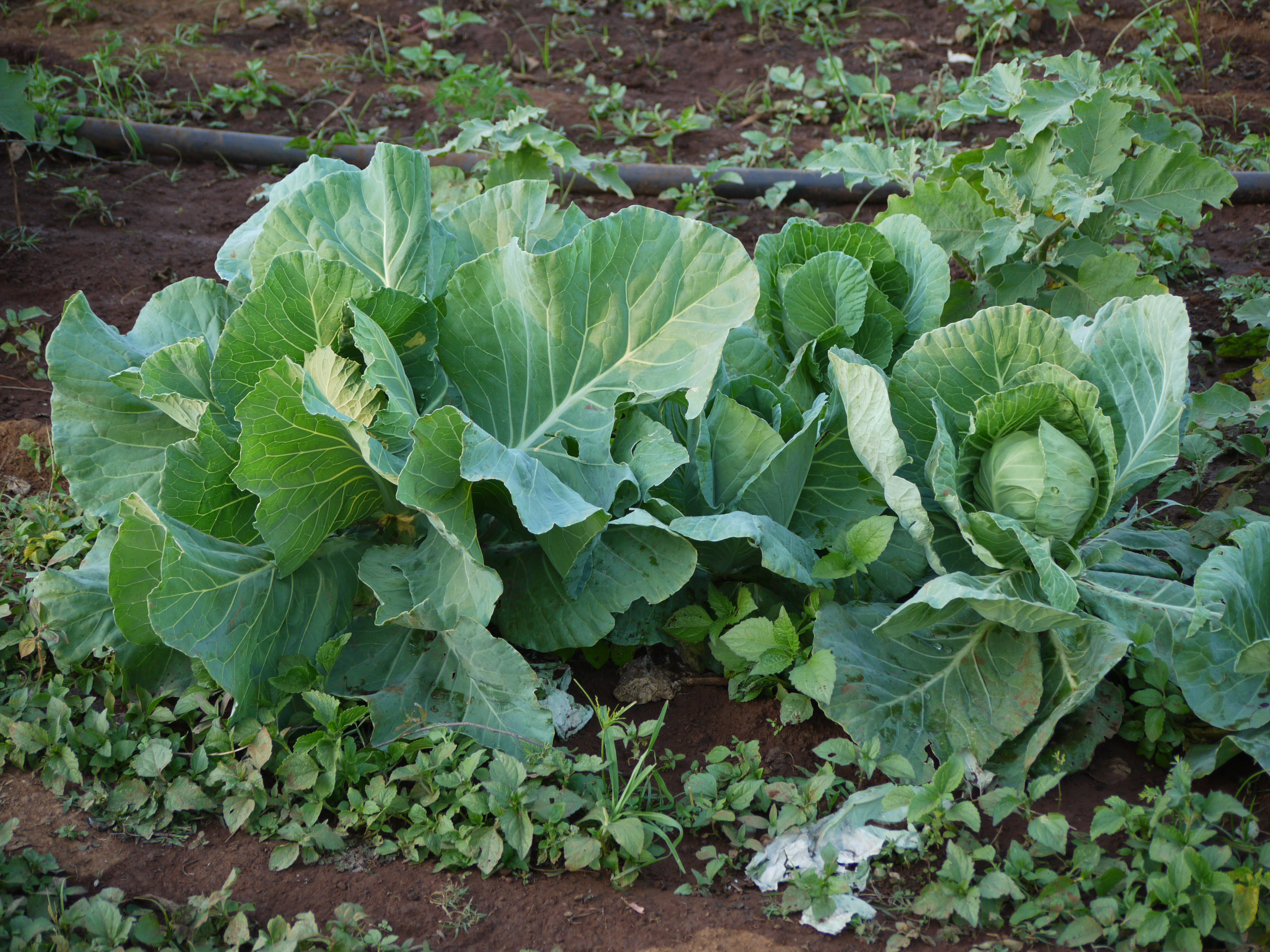 Brassicaceae (mustard, or cabbage family) » Brassica oleracea var. capitata BRAS-ee-ka -- from the classical Latin name for cabbage awl-lur-RAY-see-uh -- edible vegetable kap-ih-TAY-tuh -- having a head, referring to growth habit commonly known as: cabbage • Assamese: বন্ধা-কবি bandha kobi • Bengali: বাঁধাকপি bandhakopi • Gujarati: કોબી kobi, કોબીજ kobij • Hindi: बंद गोभी band gobhi, गोभी gobhi, कोबी kobi, पात गोभी paat gobhi, पत्ता गोभी patta gobhi • Kannada: ಎಲೆಕೋಸು elekosu, ಕೋಸುಗೆಡ್ಡೆ kosugedde • Konkani: कळे kale, कोबी kobi, कोसु kosu, पाल्ले paalle • Lushai: antam • Malayalam: മുട്ടക്കോസ് muttakkoos • Manipuri: kobiful • Marathi: कोबी kobi • Nepali: गोबि gobi • Oriya: bandha kobi • Punjabi: ਬੰਦ ਗੋਭੀ band gobhi • Sanskrit: कपिकम् kapikam, कपिशाकः kapishakah • Sindhi: پَنَگوبيِ pana gobii • Sinhalese: gova • Tamil: கோவிசு kovicu, முட்டைக்கோசு muttai-k-kocu • Telugu: కోసు kosu • Urdu: گوبهی gobhi, کوبي kobi Distribution: only cultivated References: ENVIS - FRLHT • NPGS / GRIN • DDSA